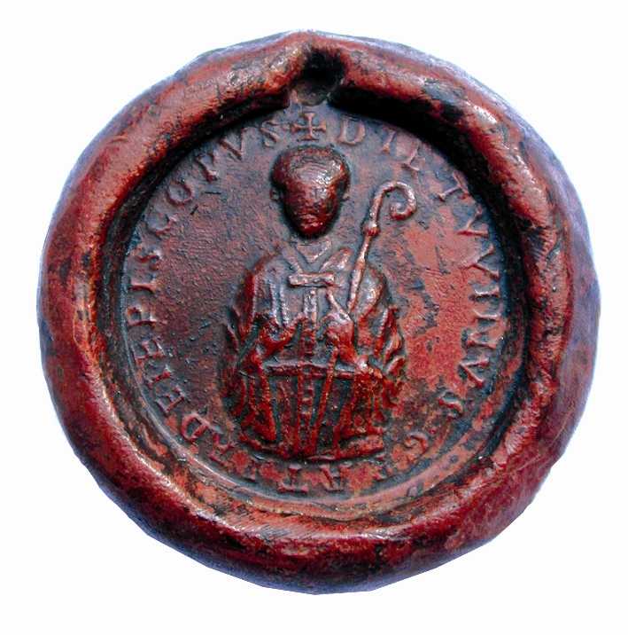 Seal Bishop Théoduin Liège - Chart of Huy